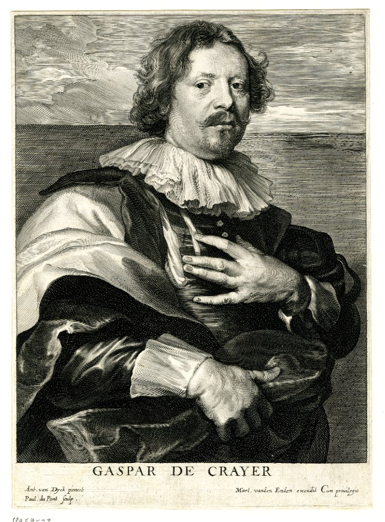 Portrait of Gaspar de Crayer (1584-1669)